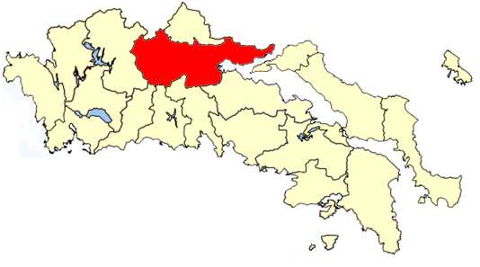 Pthiotida province